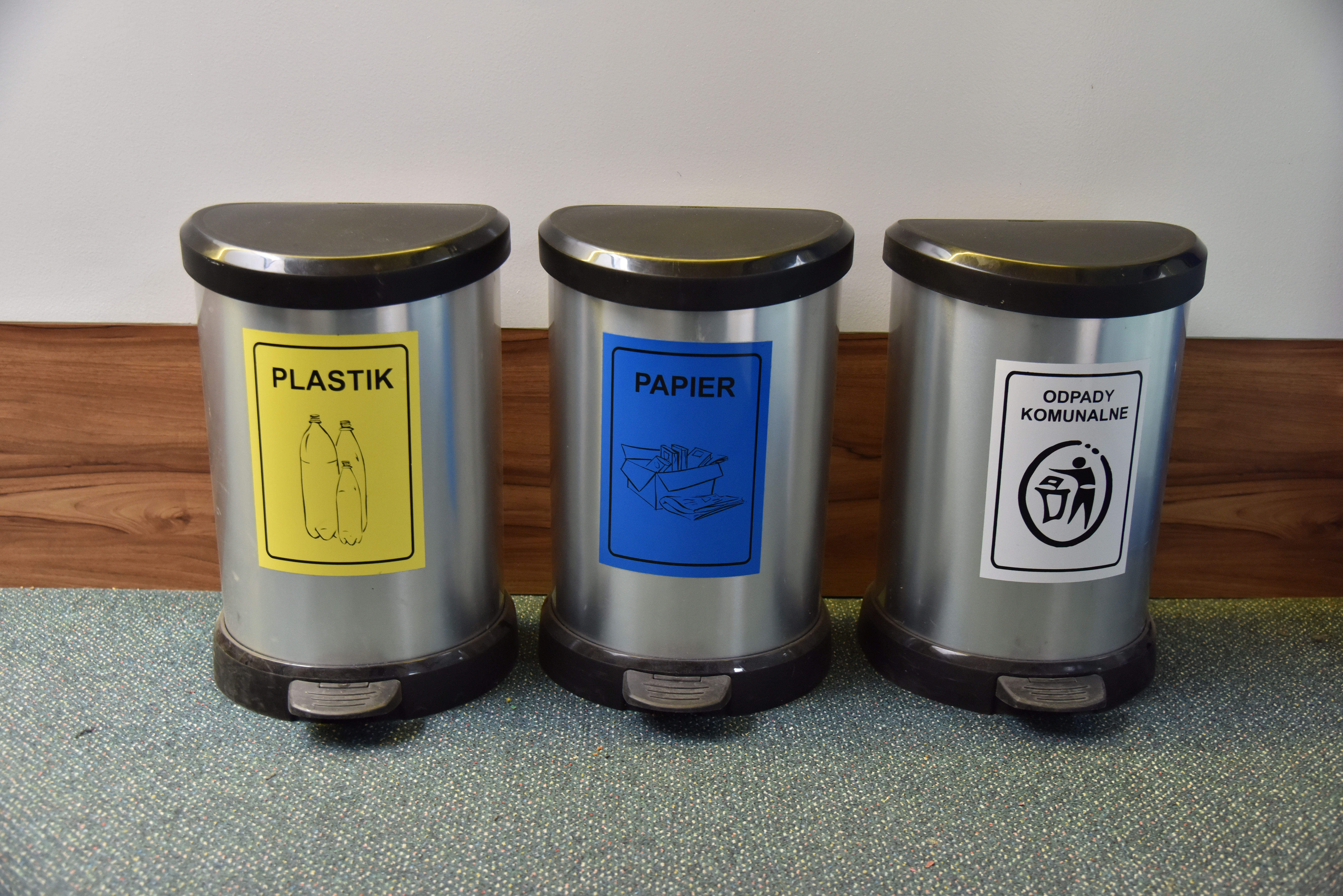 Office waste sorting at the Scanfil Poland factory in Sieradz